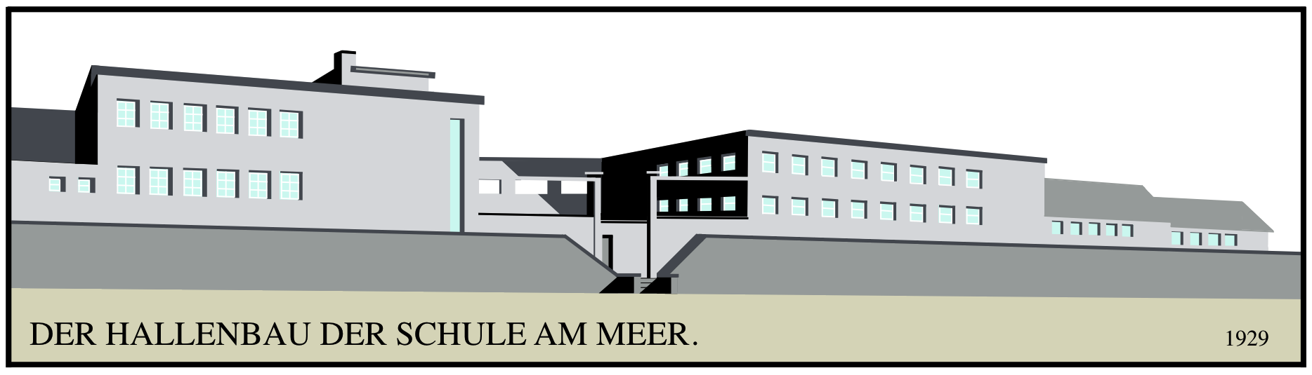 Computergraphics based on a manual drawing from 1929 of Berlin-based architect Bruno Ahrends (1878–1948) for a building complex containing an auditorium with gallery for Schule am Meer, a progressive school on the island of Juist in Germany which was founded by Martin Luserke (1880–1968) in 1925. The graphics is very similar to the original but not identical. From 1930 to 1931 the large building on the left with the narrow vertical window was erected and served as a multifunctional hall for theater and sports. It was used for the pupils role playing in the tradition of William Shakespeare. The stage was open to all sides. The usual separation from the auditorium was dispensed. The actors were able to include the auditorium as well as the whole hall into their play. Between Ahrends' drawing and his situation plan of 1929 are differences.